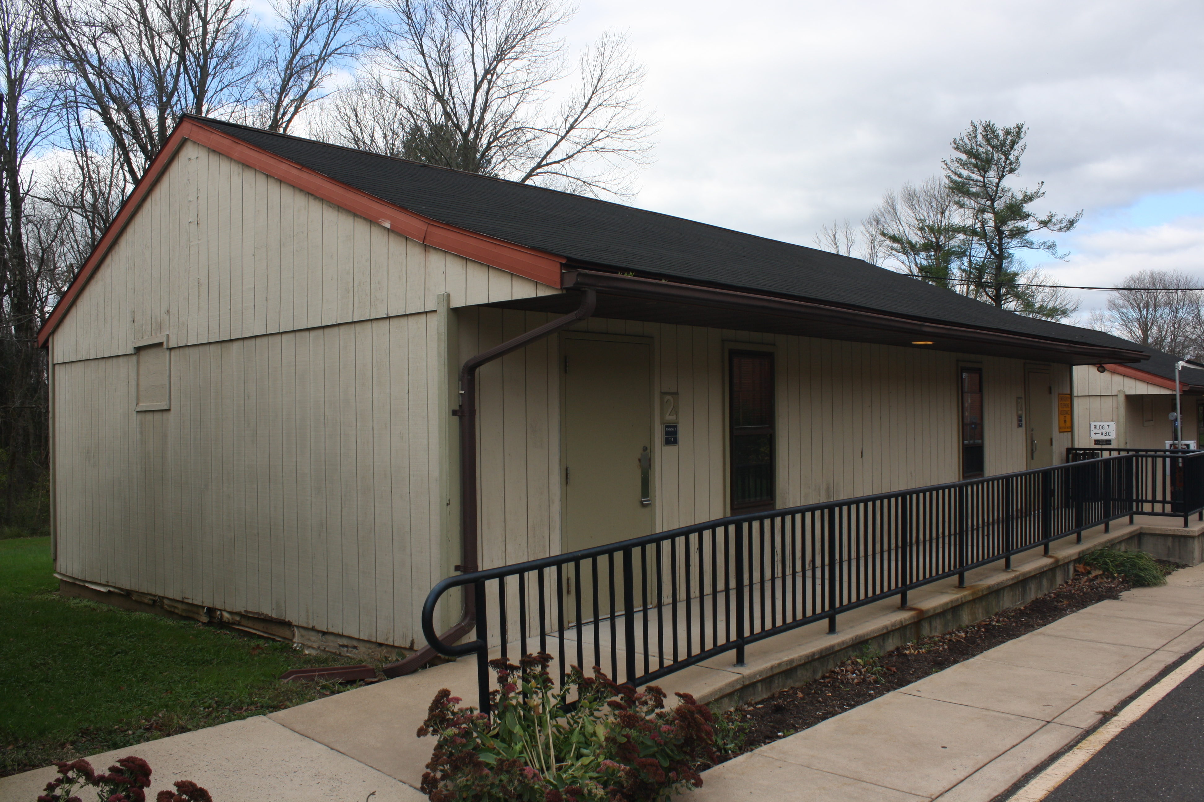 Bucks County Community College is a two-year community college located in Bucks County, Pennsylvania, near Philadelphia. Portable Classrooms. Located behind Founders Hall and Penn Hall, these additional classroom spaces make expanded class offerings possible.